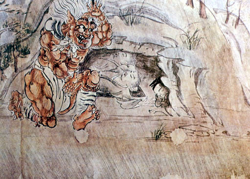 Gengyo 1 : Gengyo dream.